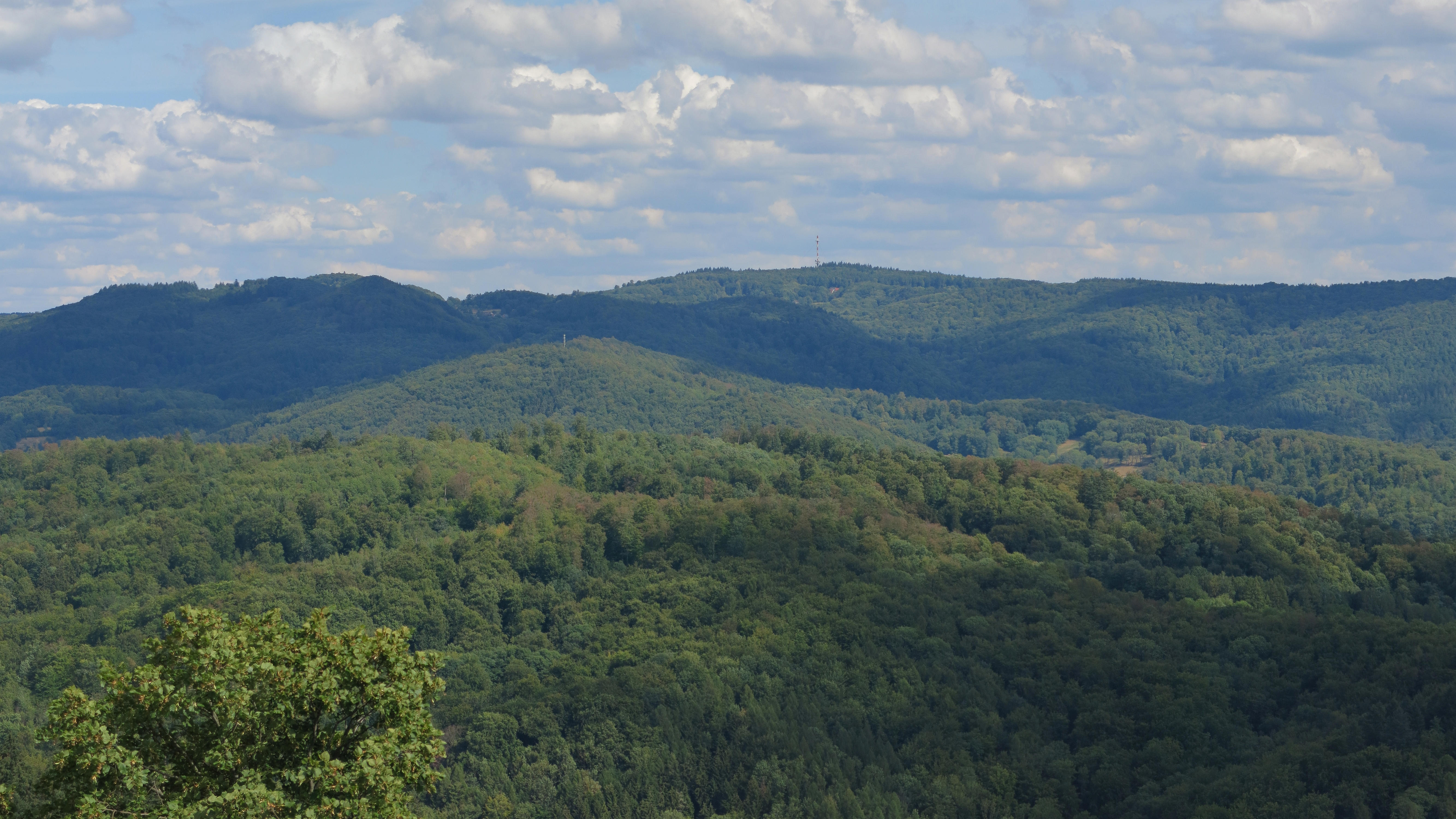 View from Auerbach Castle southeastward to the Krehberg in the Odenwald.